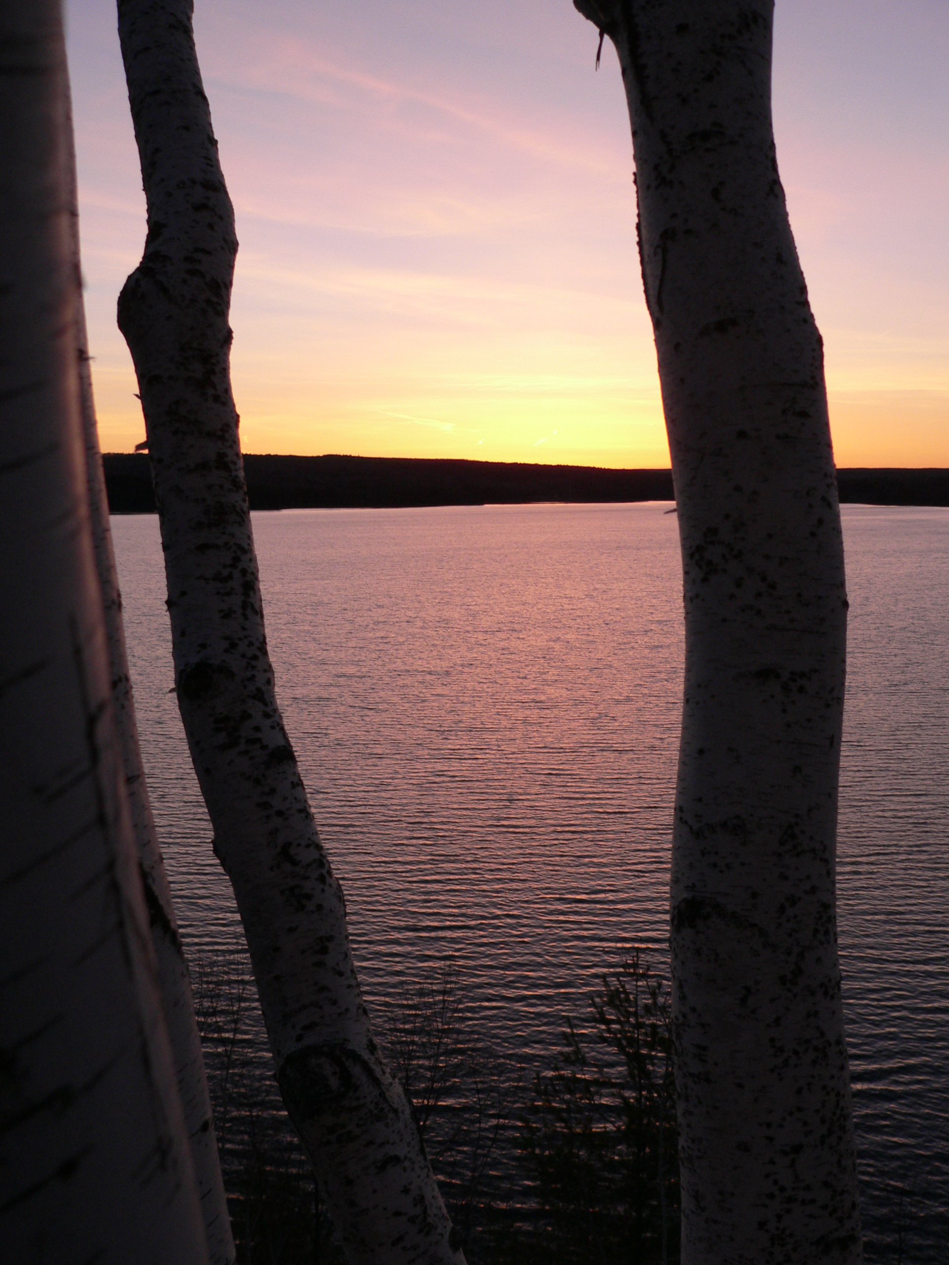 Sunset over the Wachusett Reservoir (Massachusetts)